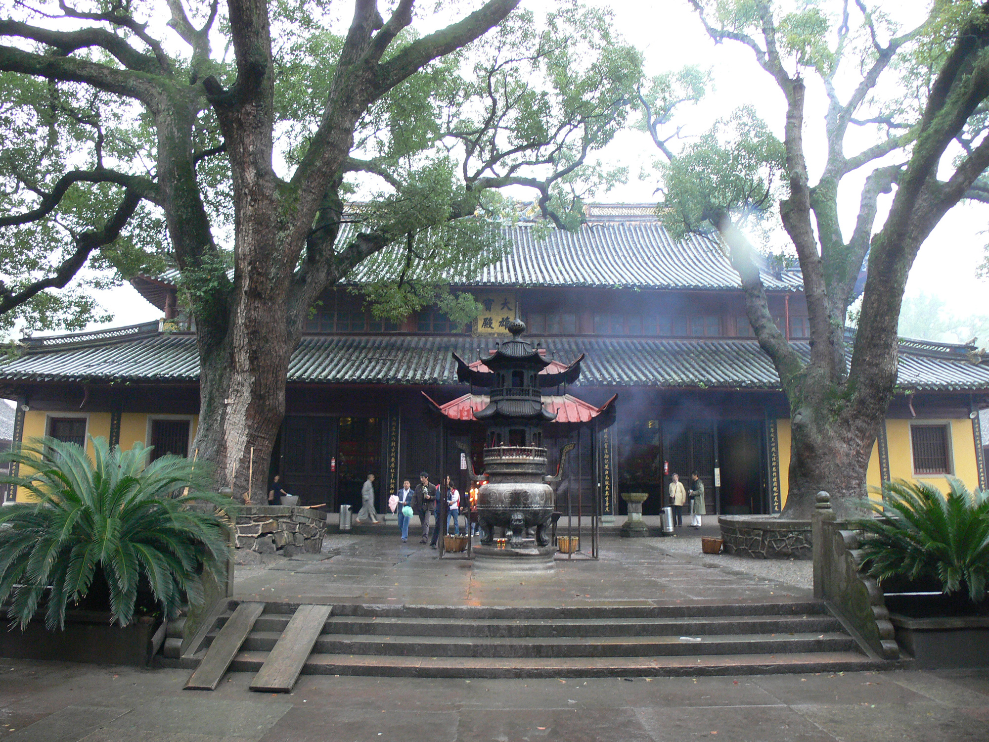 Hall of Sakyamuni, Ningbo Ashoka Temple